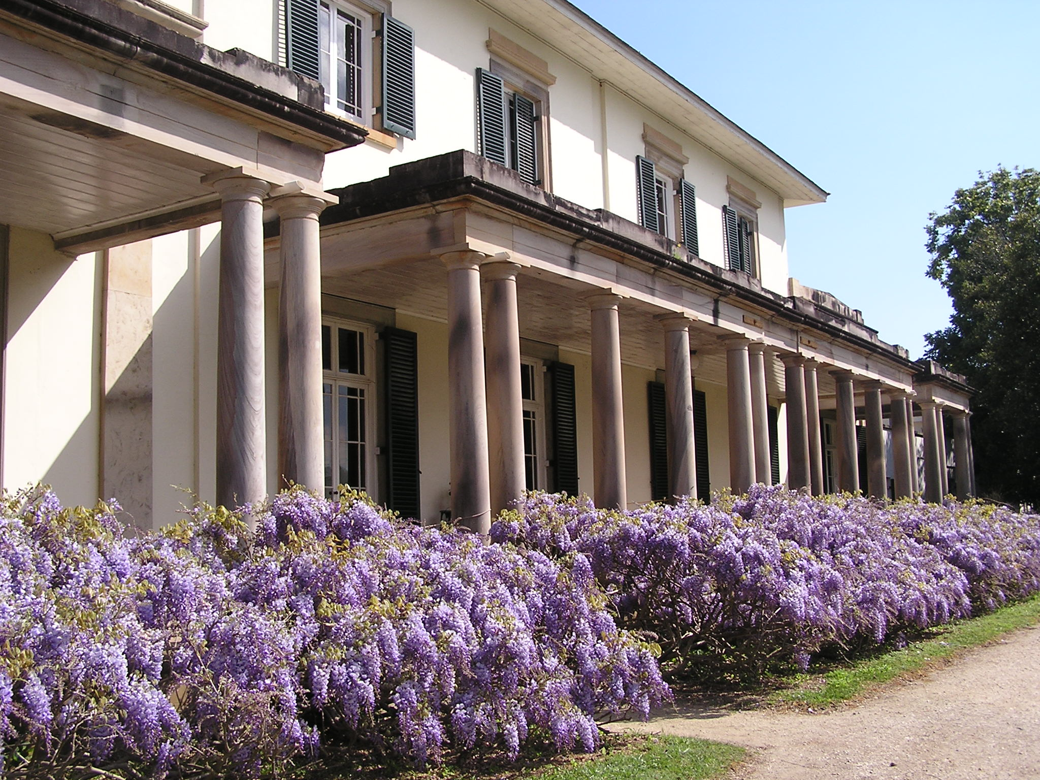 House designed by John Verge at Camden Park, New South Wales, Australia - built between 1832-35 for John Macarthur